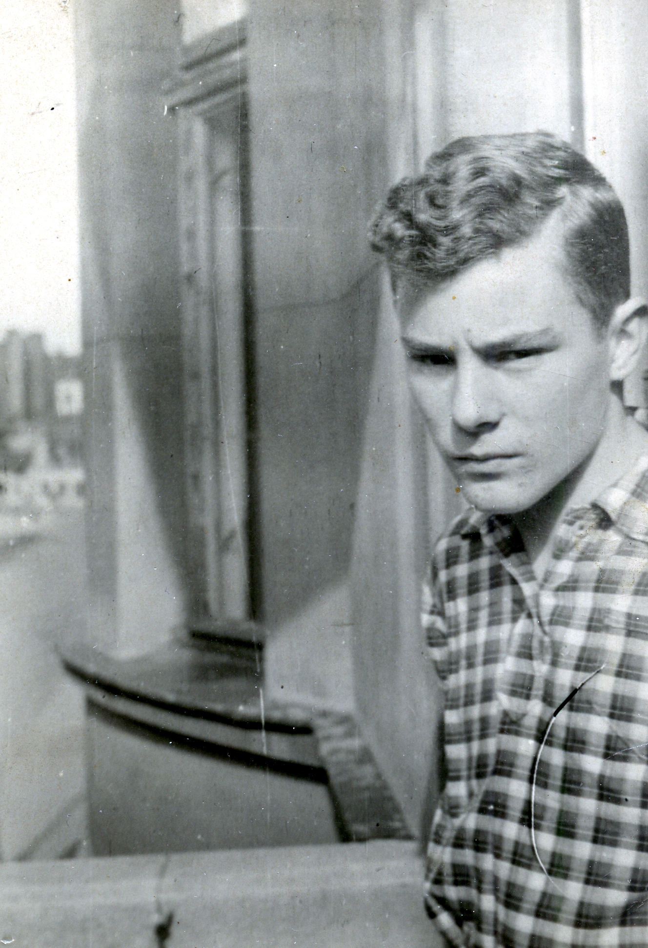 Allan Andrzej Semadeni (1928-1944), some months before he perished in Warsaw Uprising